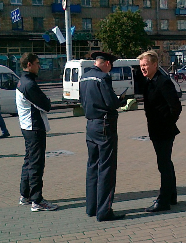 Vital Rymasheuski. Belarusian politician and one of the presidential candidates at the 2010 presidential elections in Belarus.